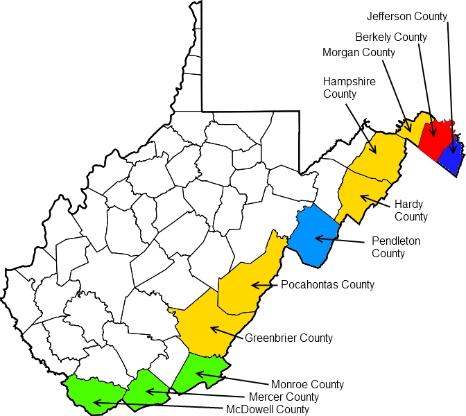 Map of the development of West Virginia covering the period June 19, 1861, to March 6, 1871. Counties in white are the original counties whose delegates authorized secession from the state of Virginia on August 6, 1861, at the Second Wheeling Convention. Berkeley County (red), Jefferson County (dark blue), and the counties marked in yellow were also authorized at this time to secede if their voters approved. Counties in green were added to the new state of West Virginia at the West Virginia constitutional convention, held November 26, 1861, to February 18, 1862. The county in light blue was offered the chance to join the new state during the constitutional convention if its voters approved. A legal dispute over the elections through which Berkeley and Jefferson counties seceded from Virginia was not resolved until the U.S. Supreme Court's decision in Virginia v. West Virginia, 78 U.S. 39 (1871).